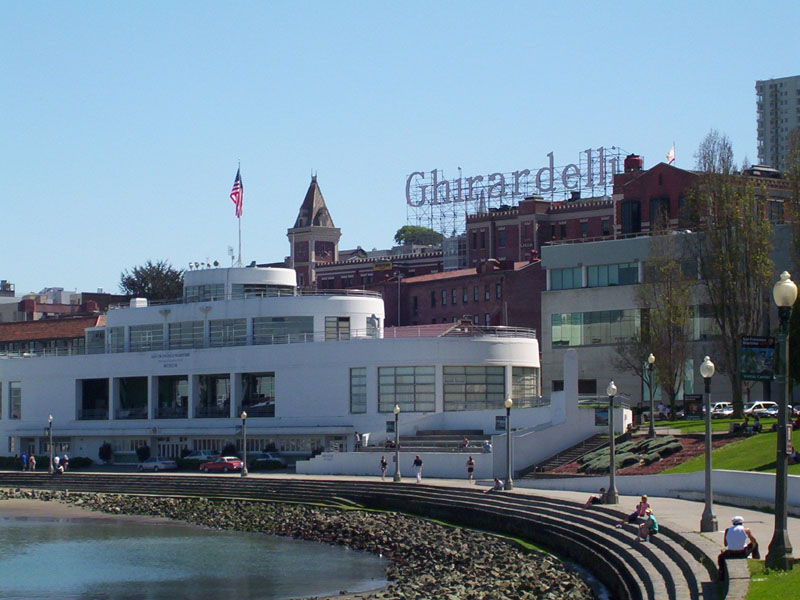 The Ghirardelli Chocolate Company sign in San Francisco.